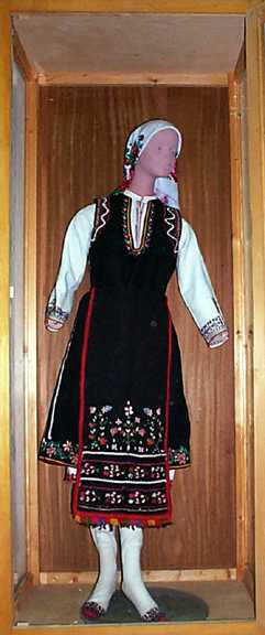 Traditional costumes of refugee women from Eastern Roumelia and Northern Epiros, from the villages of Kato Kleines, image from the Folklore Museum of the Aristotle Association, Florina, West Macedonia, Greece